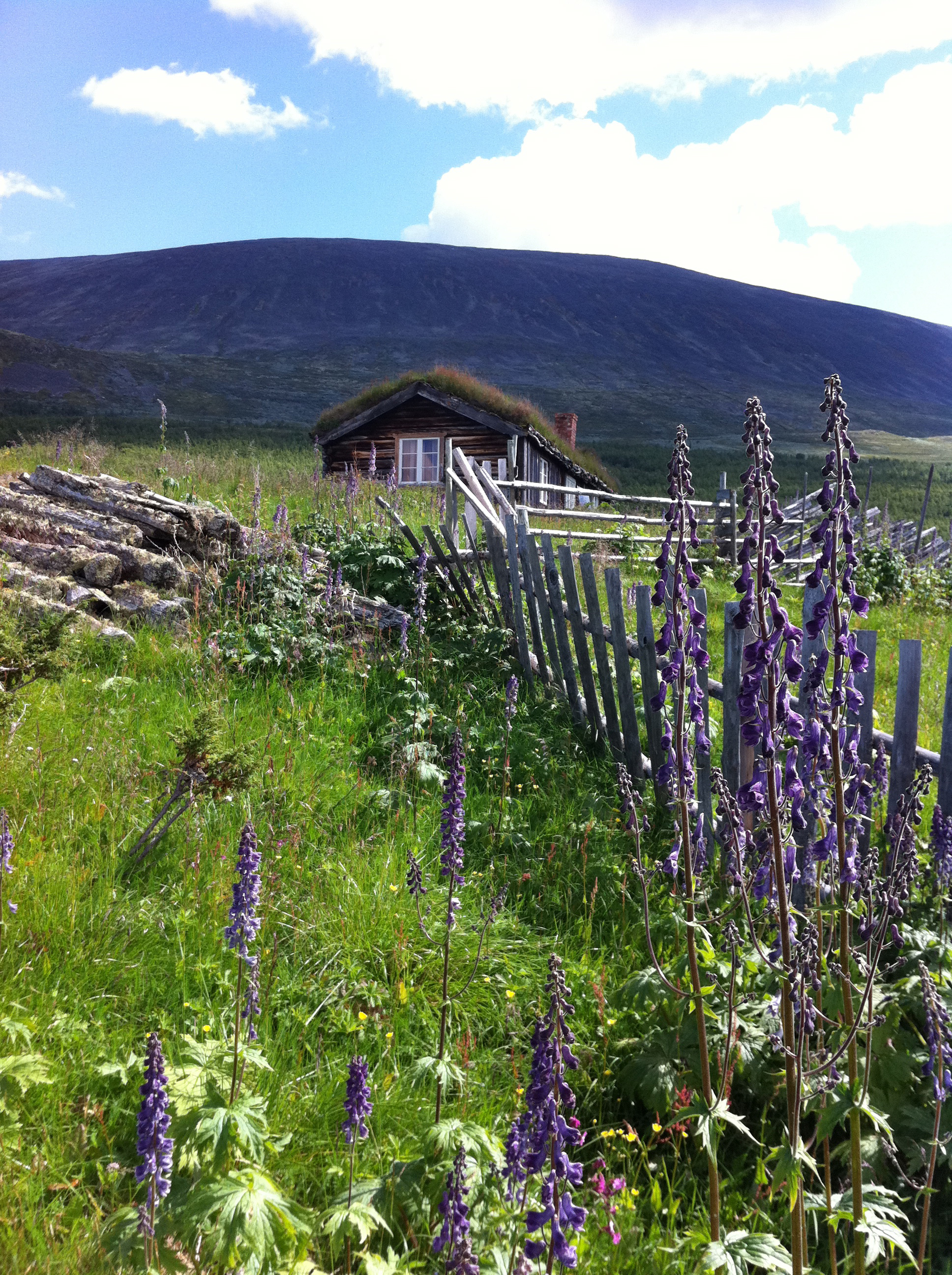 Part of the summer mountain pastures of Nordre Ekre, a Norwegian farm - in Heidal - near the mountain Heidalsmuen